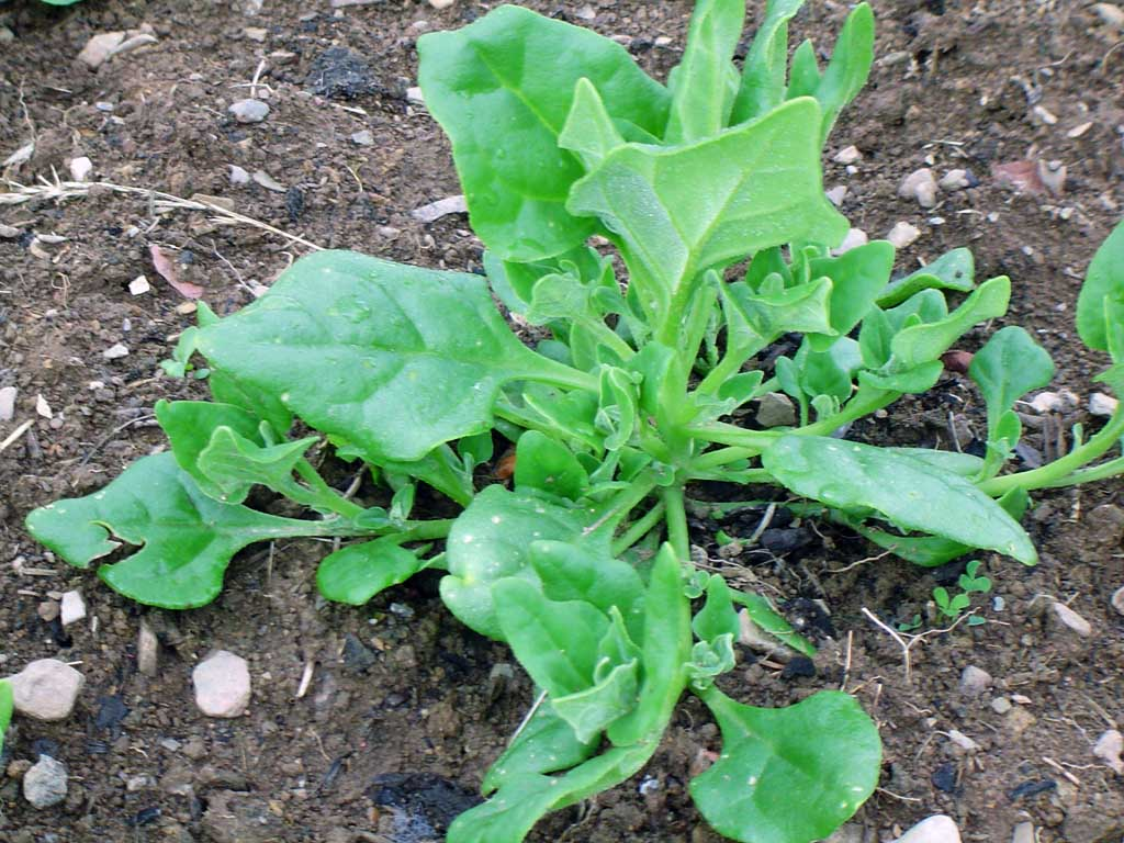 Tegragonia tetragonioides, New Zealand spinach.